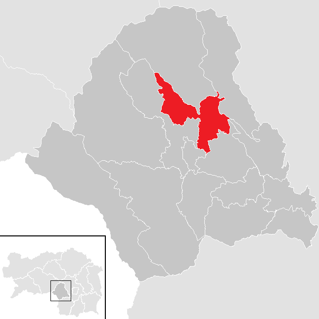 district Voitsberg